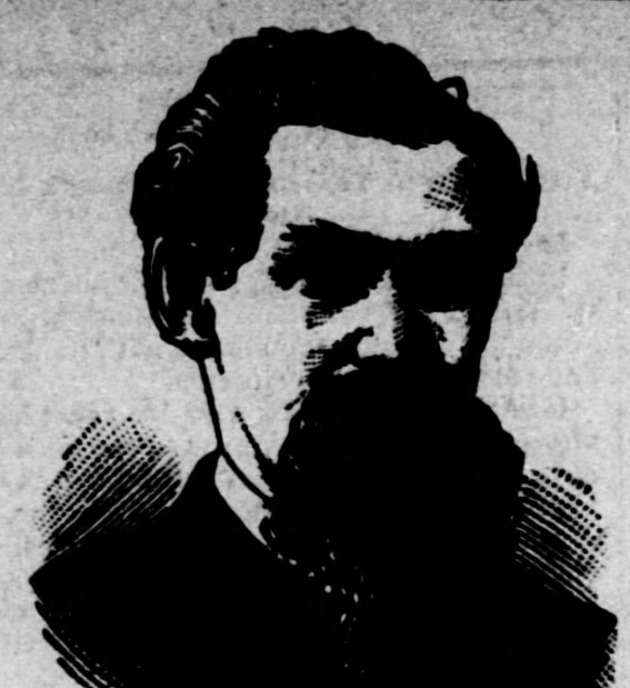 Strother M. Stockslager, seen in 1888 when he ran the General Land Office.